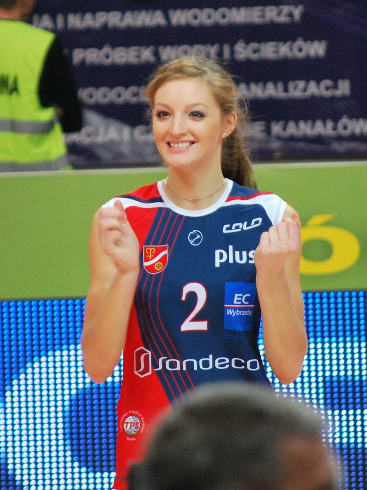 Alicja Leszczyńska, volleyball player from Poland